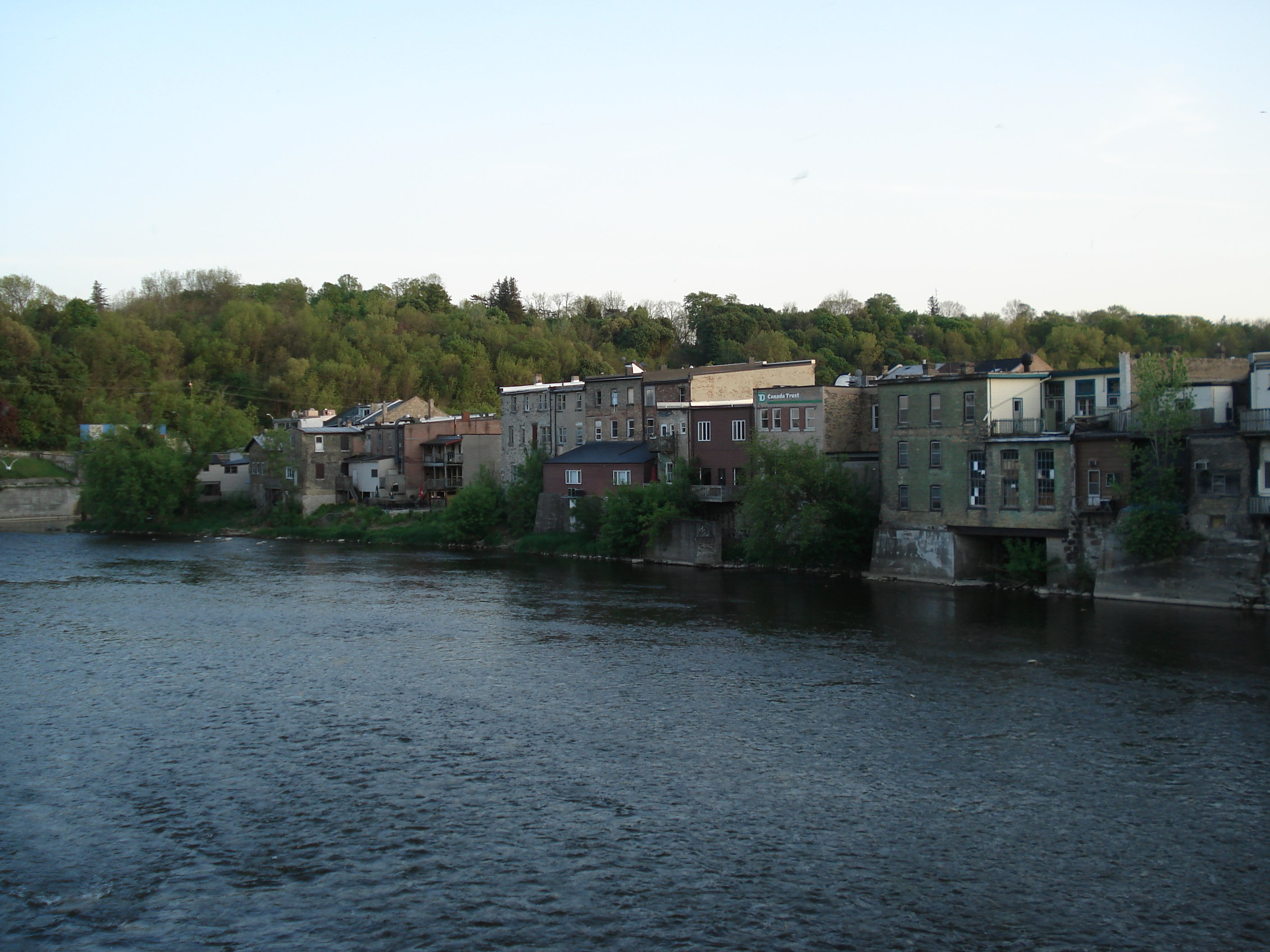 Grand River riverfront in Paris, Ontario.